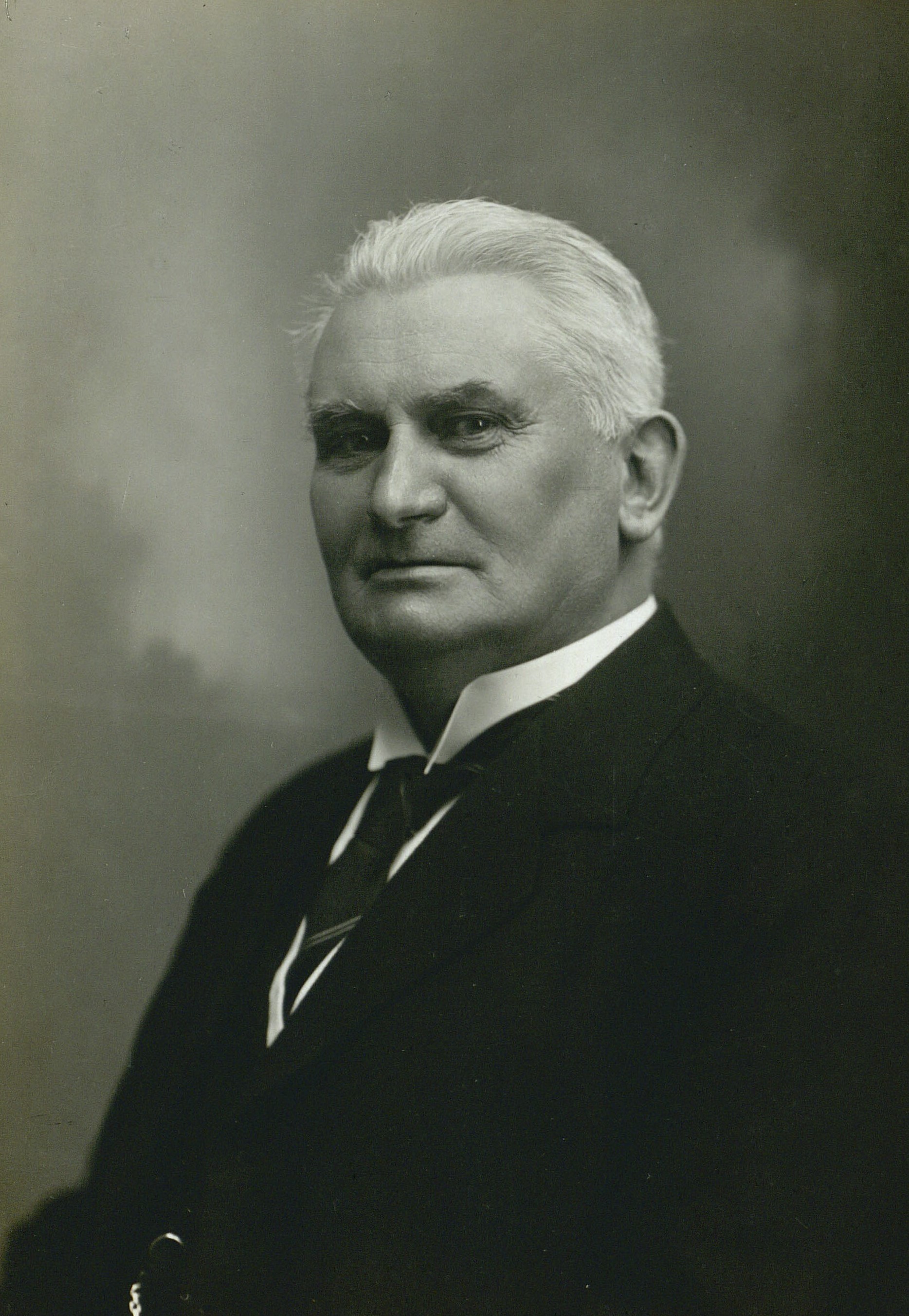 Jacob Christian Lindberg Appel (1866-1931), Danish educator, Minister of Ecclesiastical Affairs and Minister of Education